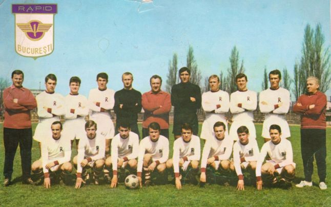 FC Rapid Bucuresti 1966-1967 squad.